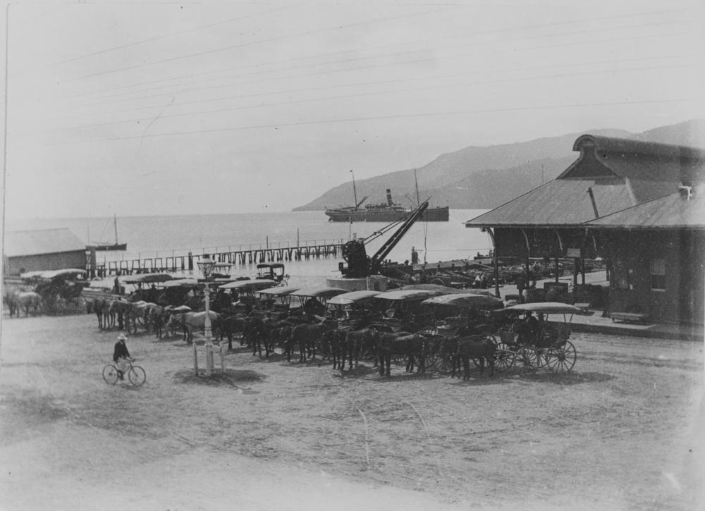 Horsedrawn cabs at Cairns wharf, ca. 1912. A steamship is anchored offshore.